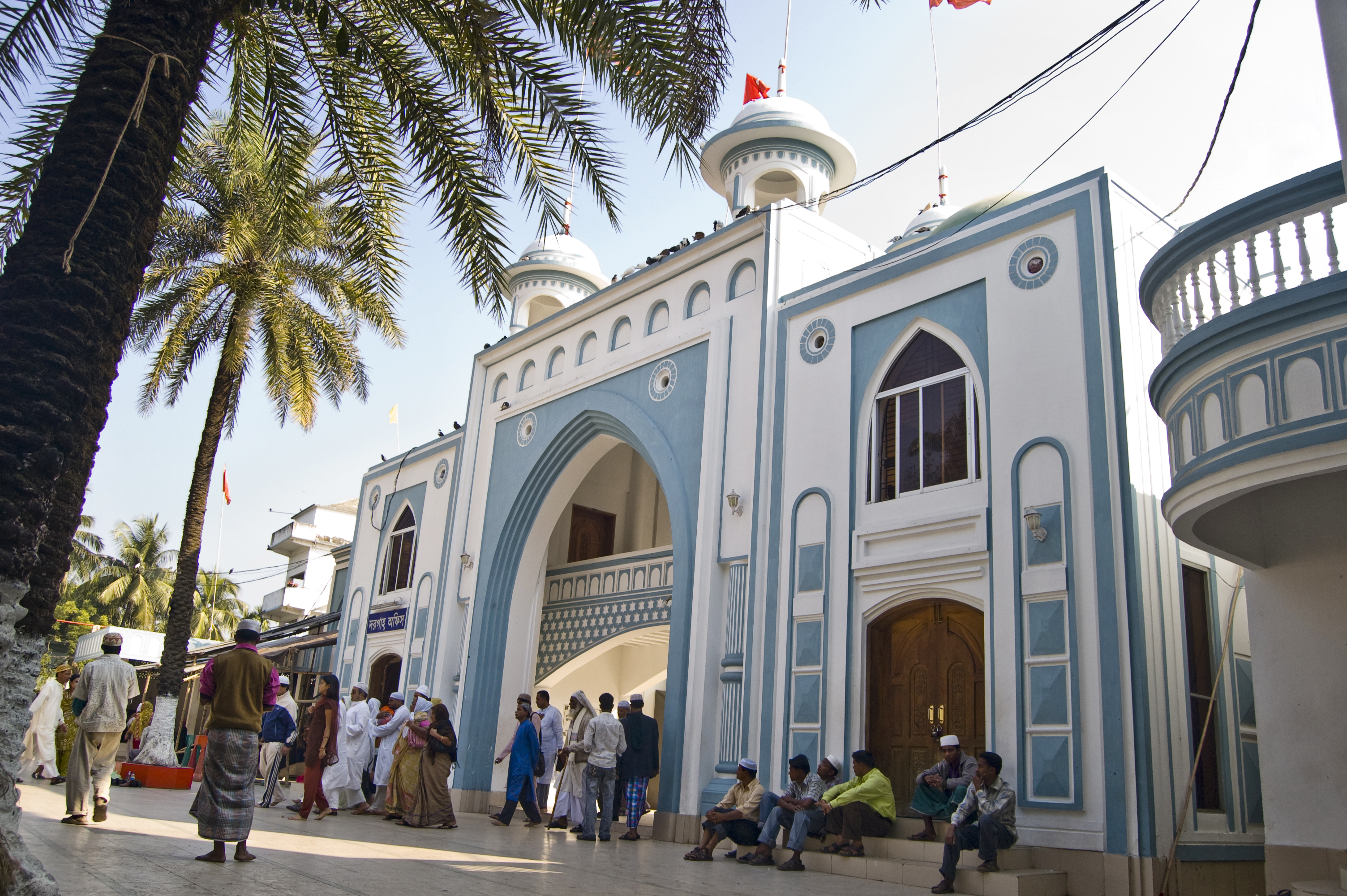 This photo is used in Wikipedia. Link is Yes, with my permission obviously!! Taken at: Sylhet tour, 21, November 2008 Location: Inside of Shah Jalal (R) Darga Sylhet, Bangladesh.